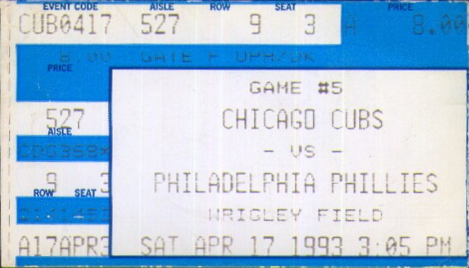 A ticket for a April 17, 1993 Major League Baseball game featuring the Philadelphia Phillies versus the Chicago Cubs at Wrigley Field.